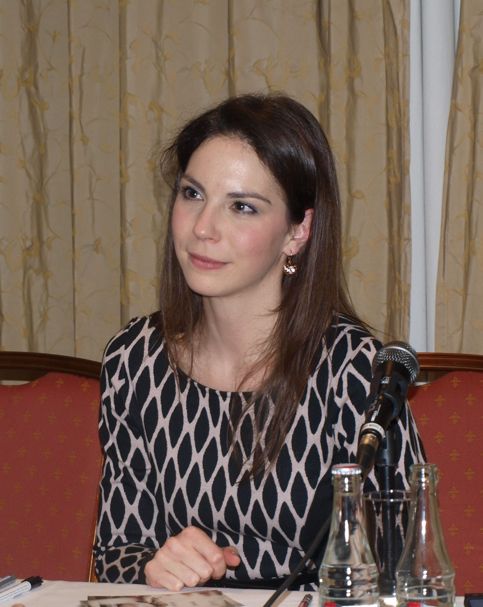 German opera singer Hanna-Elisabeth Müller during autograph session